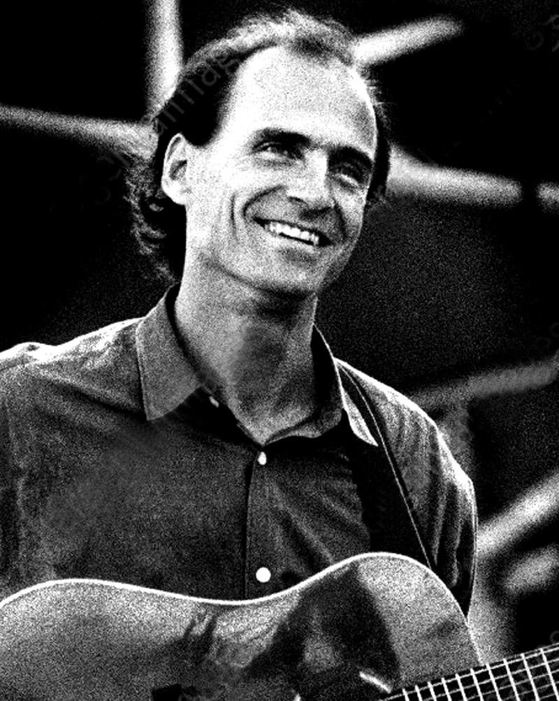 Candid photo of James Taylor performance at Winterfest.